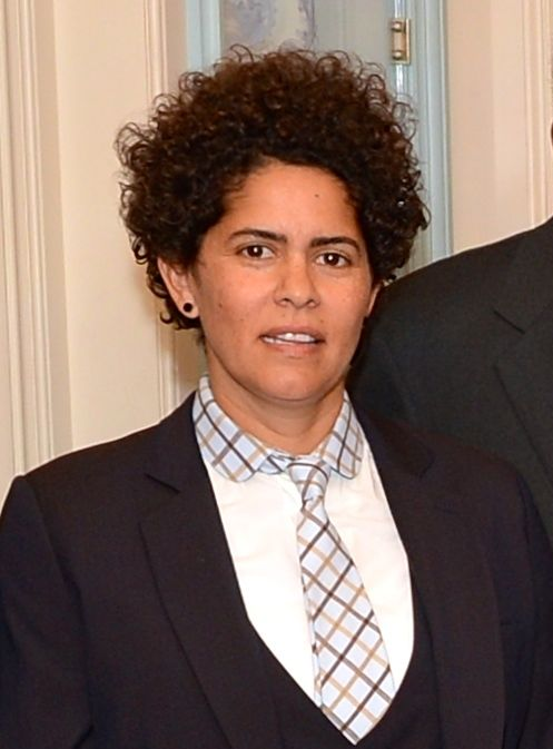 Artist Julie Mehretu in 2015.